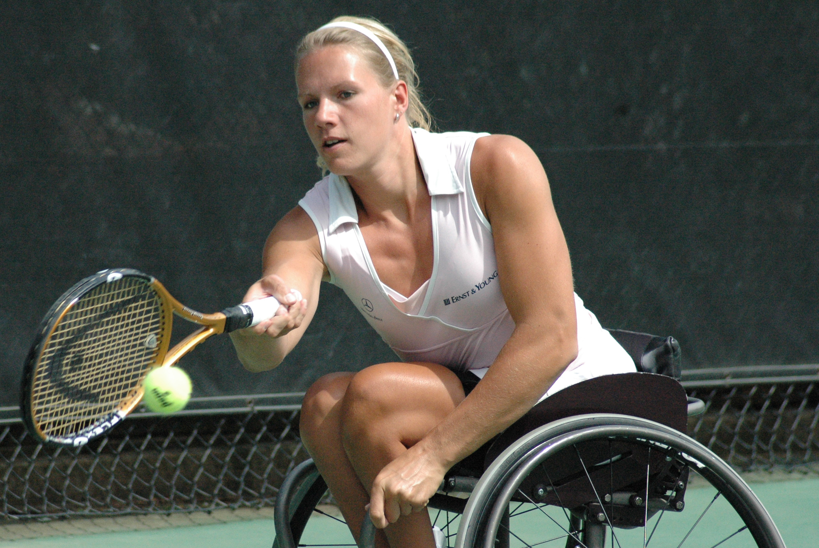 Cropped picture of Esther Vergeer, received by email, on my request, from her own collection of images, to be used on wikipedia.